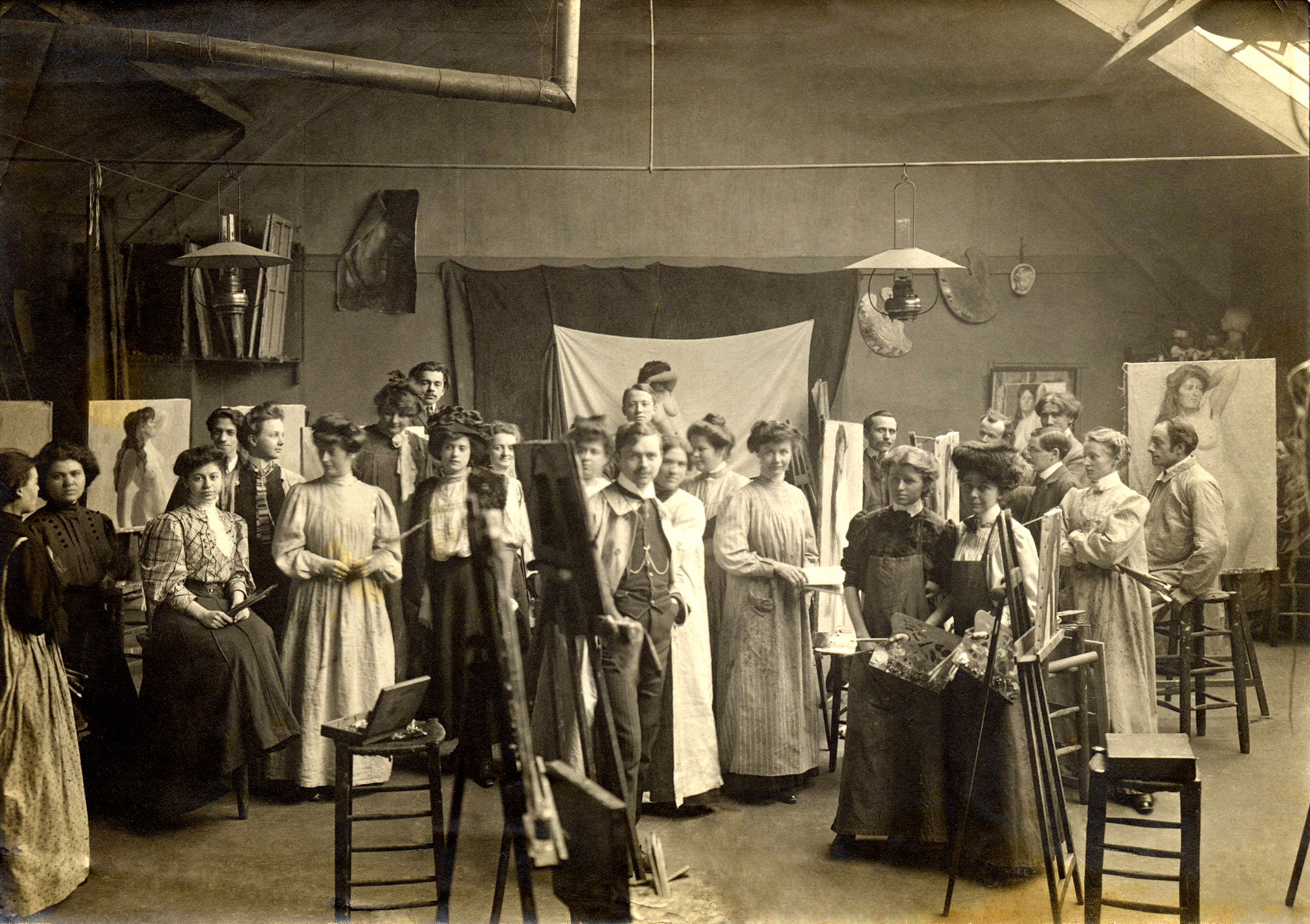 Académie Vitti, 1905